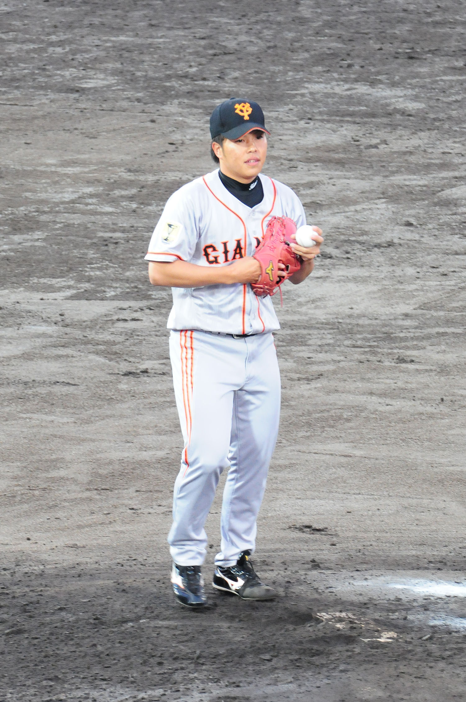 Katsuhiko Kumon, pitcher of the Yomiuri Giants, at Akita Prefectural Baseball Stadium.